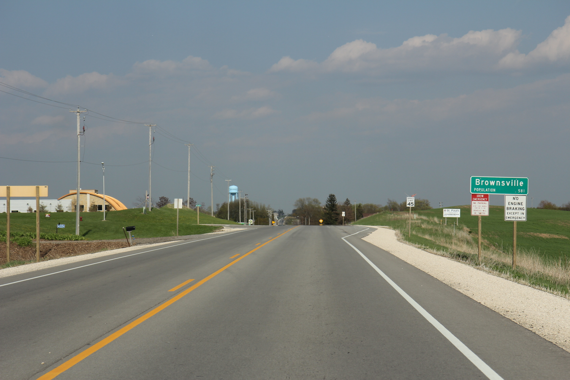 Looking east at the road sign for Brownsville, Wisconsin.